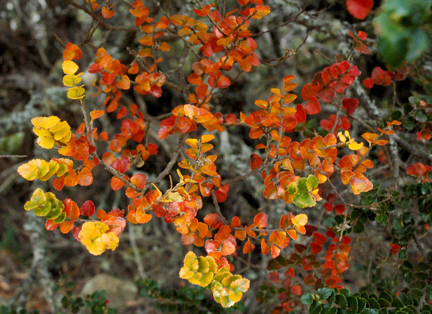 Nothofagus cunninghamii (Myrtle Beech). Lake Dobson, Mt. Field National Park, Tasmania.